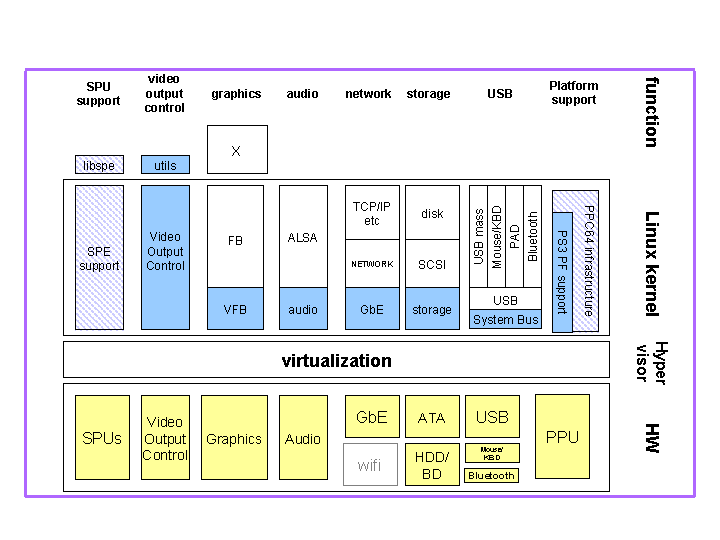 "Linux kernel is running on the top of hypervisor. Devices and other system resources are virtualized and Linux device drivers are created/modified so that they can work with virtualized devices. Fig 1 illustrates structure of Linux Kernel and device drivers. Linux kernel can access some devices directly (e.g. USB host controller). Other devices are virtualized by hypervisor and device service is provided via hypervisor call. For example, storage service hypervisor calls are available."